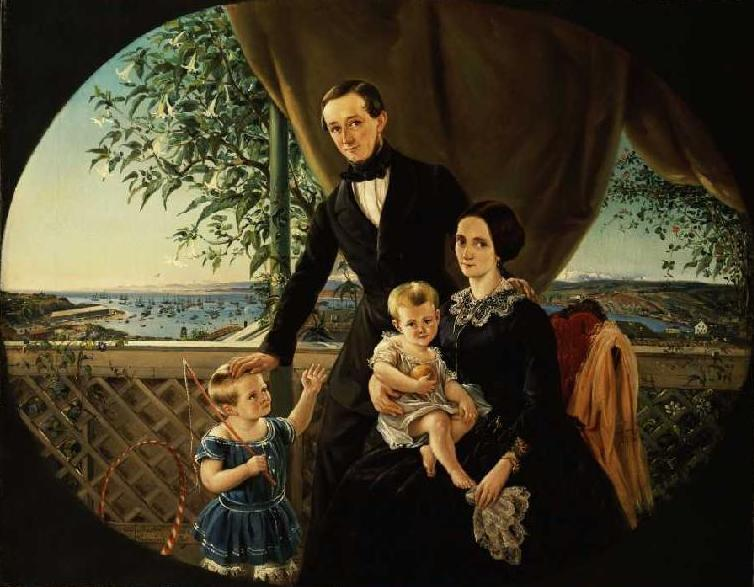 Family on the terrace about Valparaiso (1854)